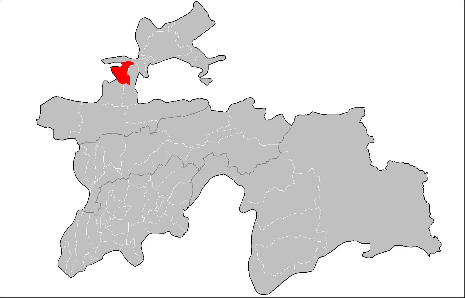 Location of Istarawshan District in Tajikistan